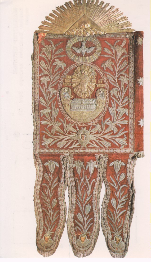 Banner of the Balšić noble family depicting Balša and his sons: Stracimir, Djuradj I, Balsa II.